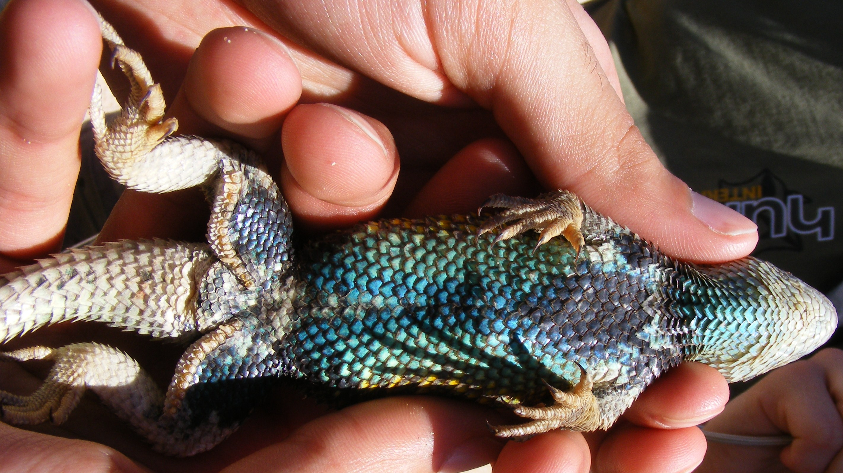 Sceloporus magister male ventral side in the Mojave desert